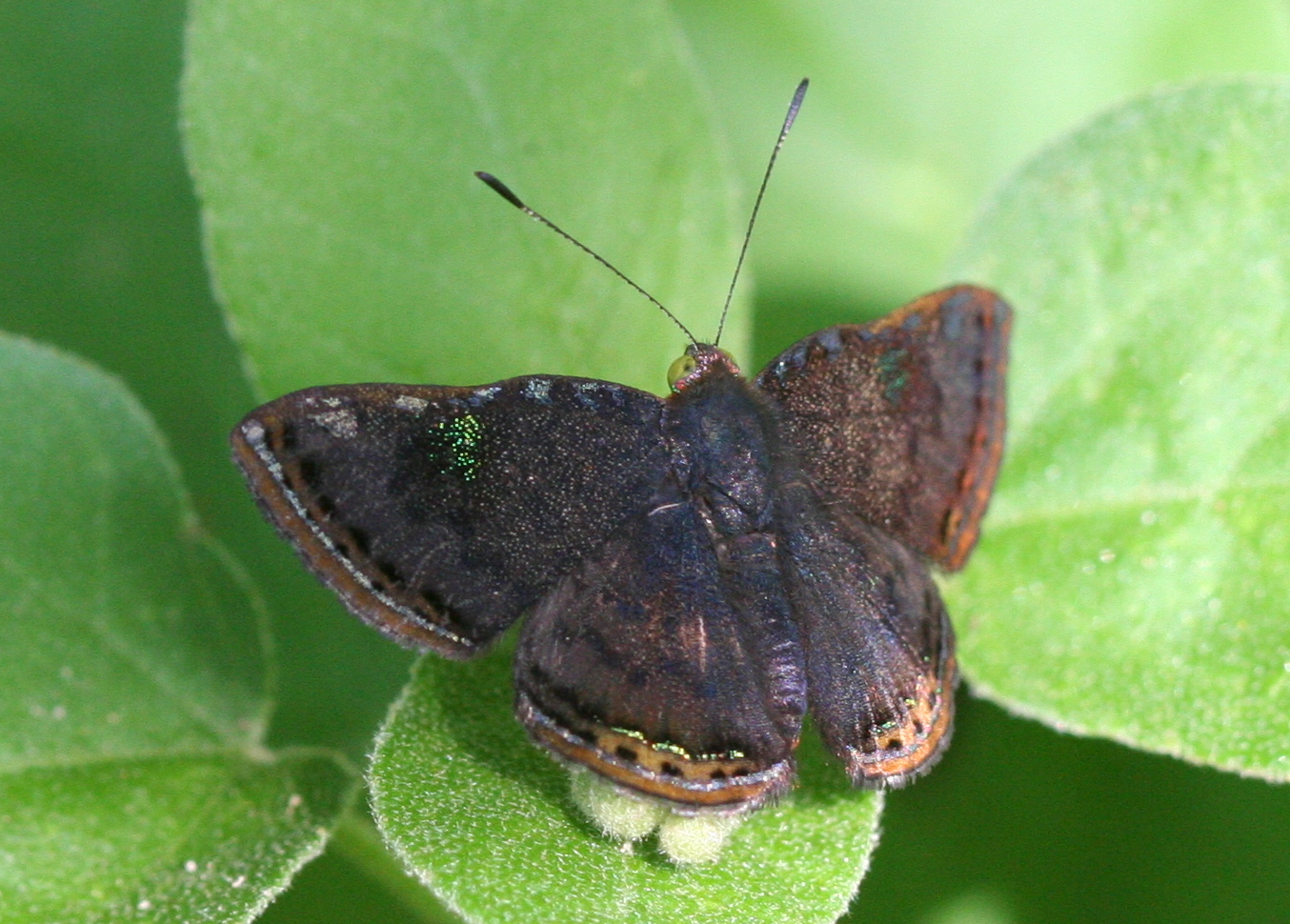 Note green scales near top of forewing.